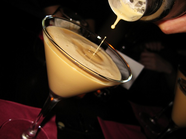 A cockatil made with brandy, creme de cacao and cream